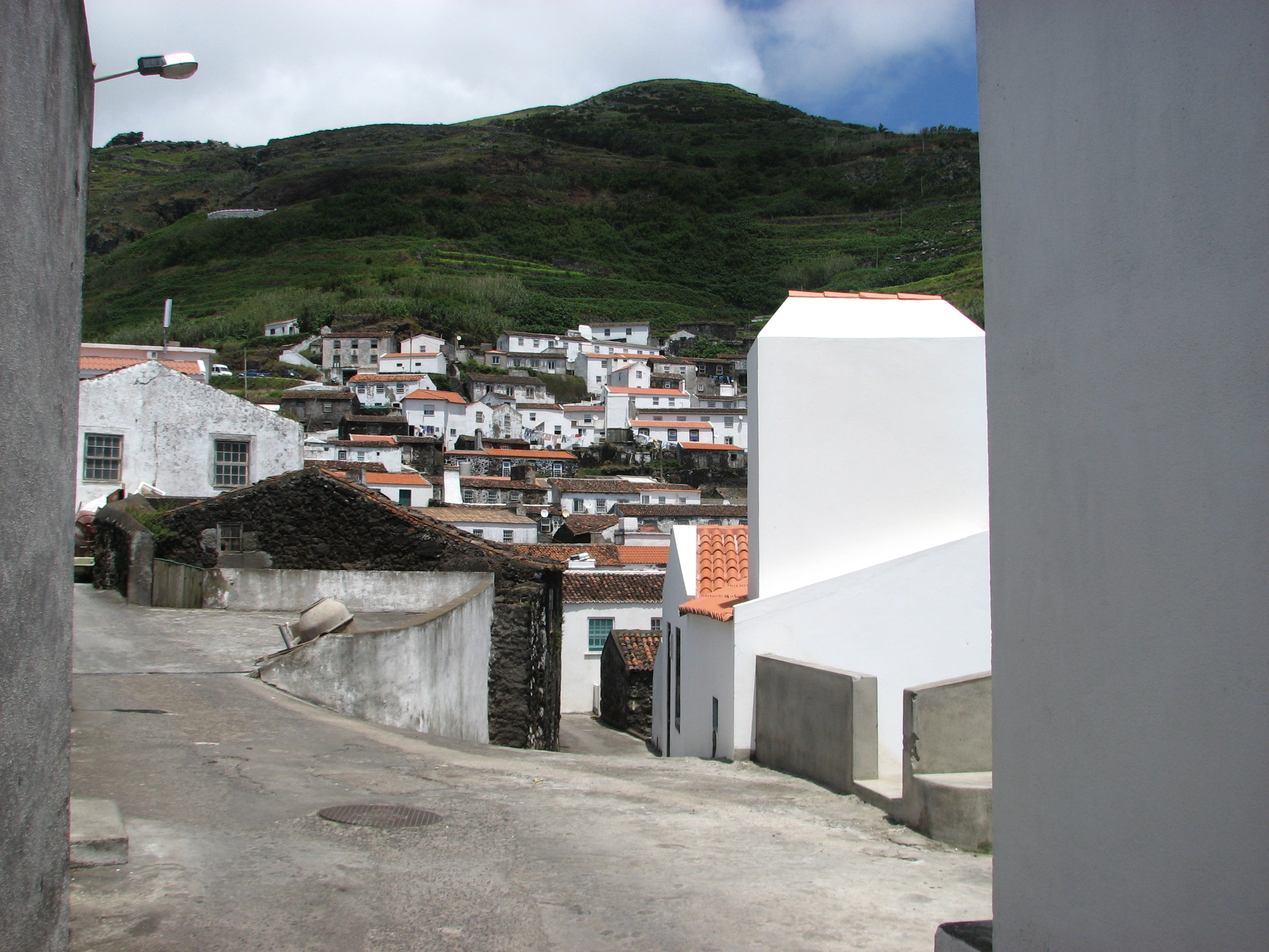 One of the major streets of Vila do Corvo, Azores.